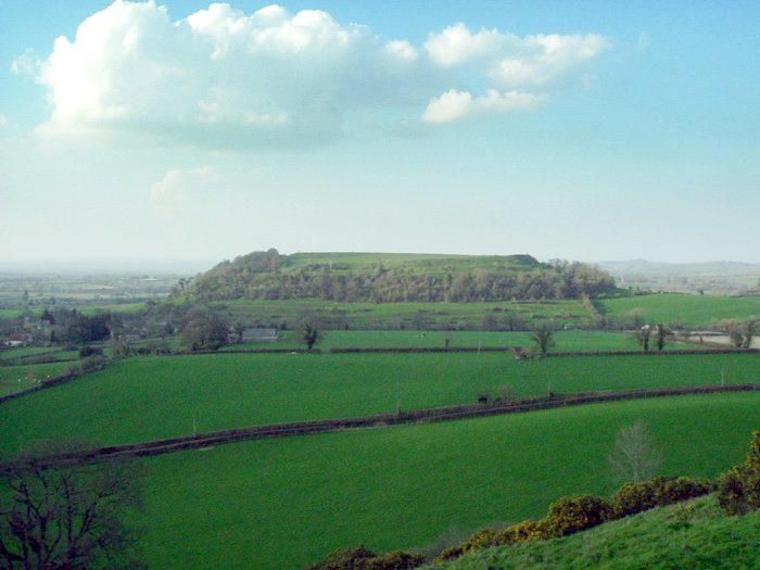 Cadbury Castle from Corton Ridge, foreground detail lifted out of shadow